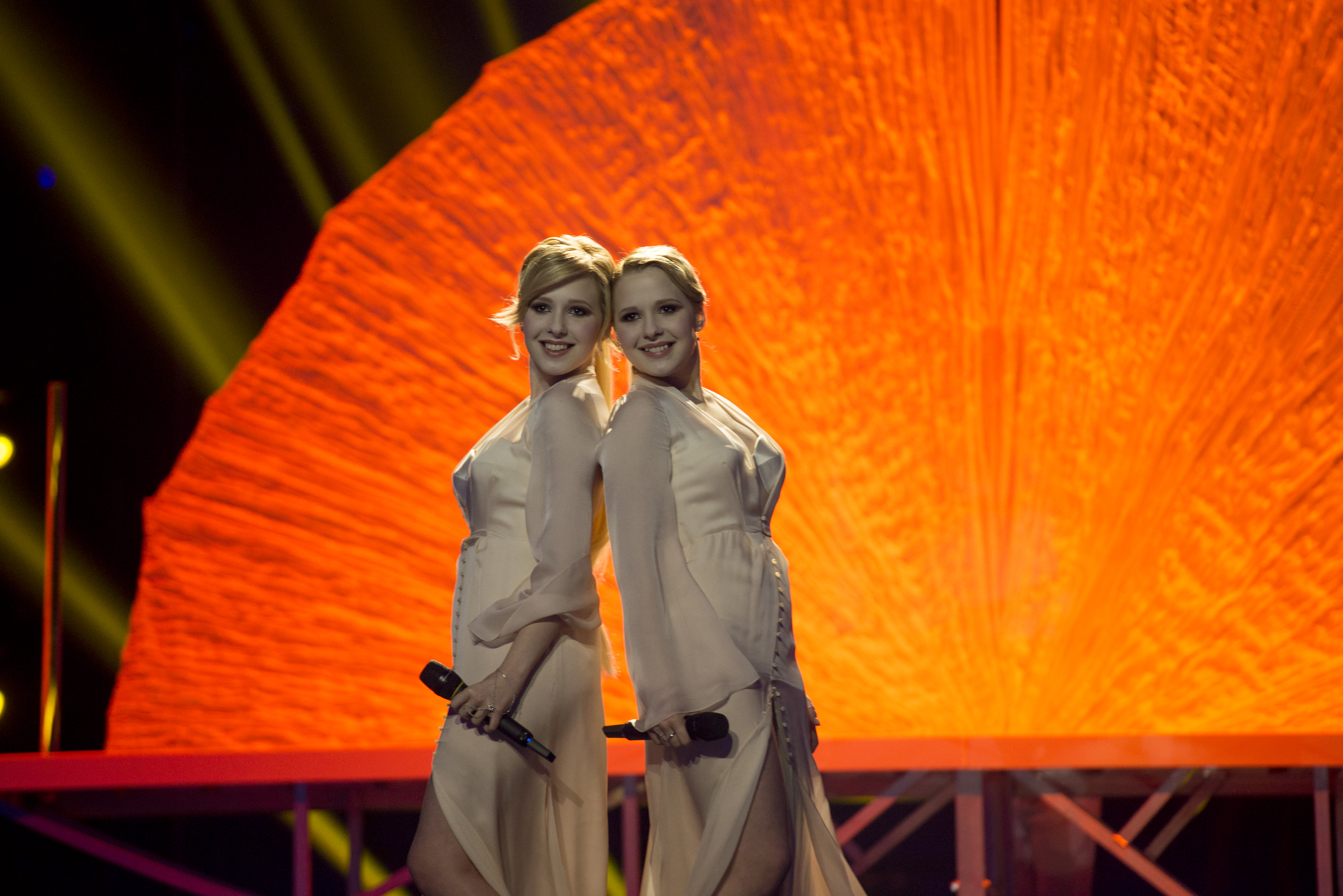 The Tolmachevy Twins representing Russia with the song "Shine" during the first dress rehearsal of the first semi final of the Eurovision Song Contest 2014 Copenhagen. (Help translate this text)